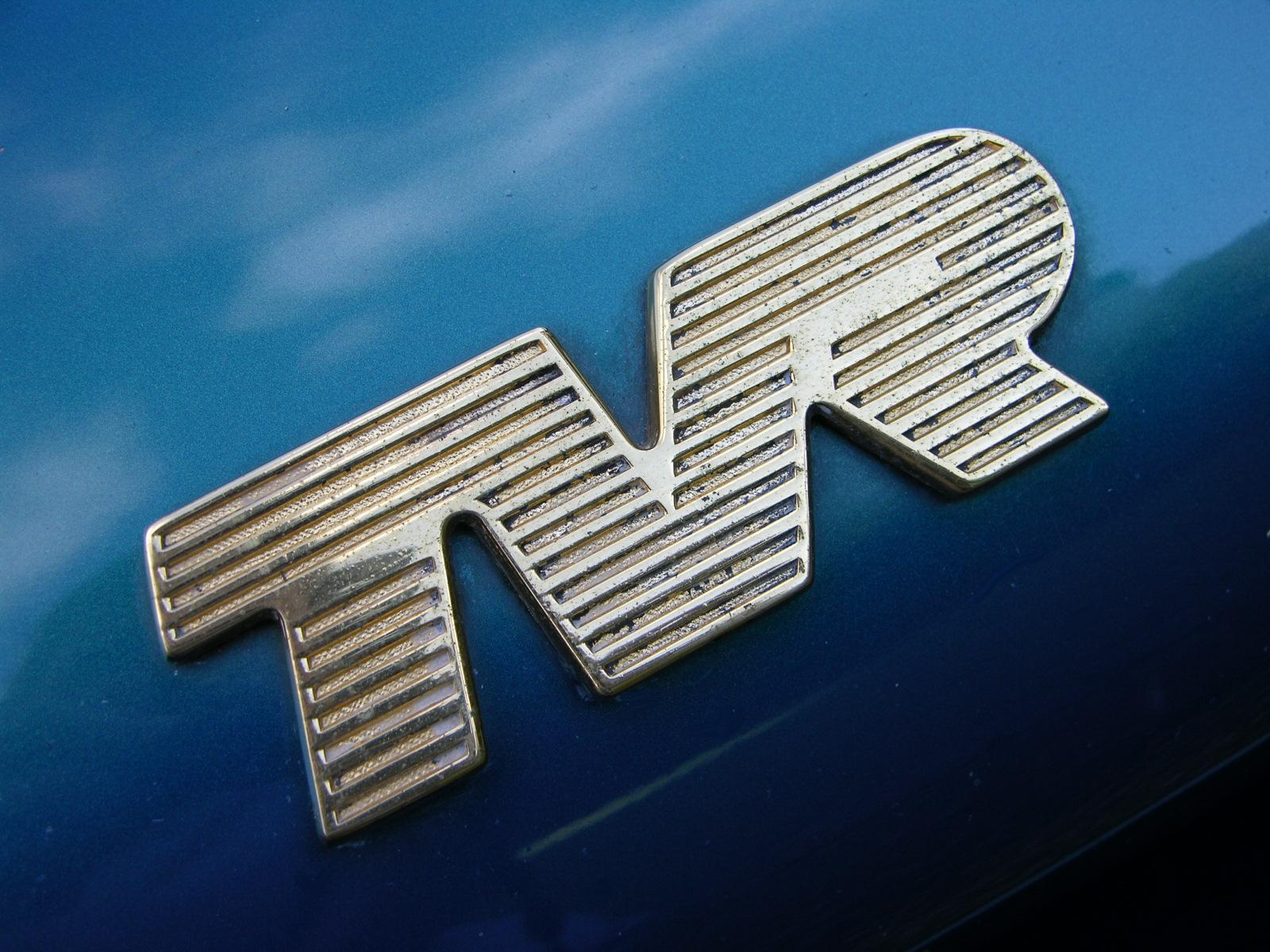 TVR Cerbera Speed Six